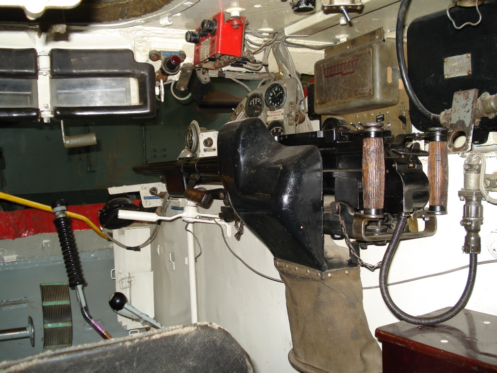 Russian T-54 tank, used by Finland. This model was cut open in for training purposes. Various systems of the tank have been illustrated with different colors. This view shows the hull machine gun immediately to the right of the driver. Finnish Tank Museum (Panssarimuseo) in Parola. Photo taken on July 14, 2006. Source: Photo by me, User:Balcer.